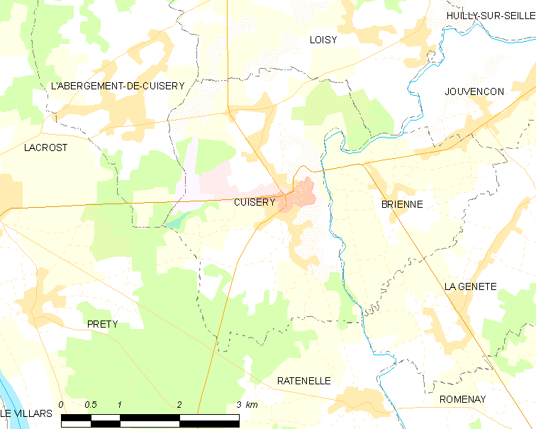 Map of French municipality